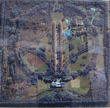 Aerial view of Villarino Park, Santa Fe province, Argentina